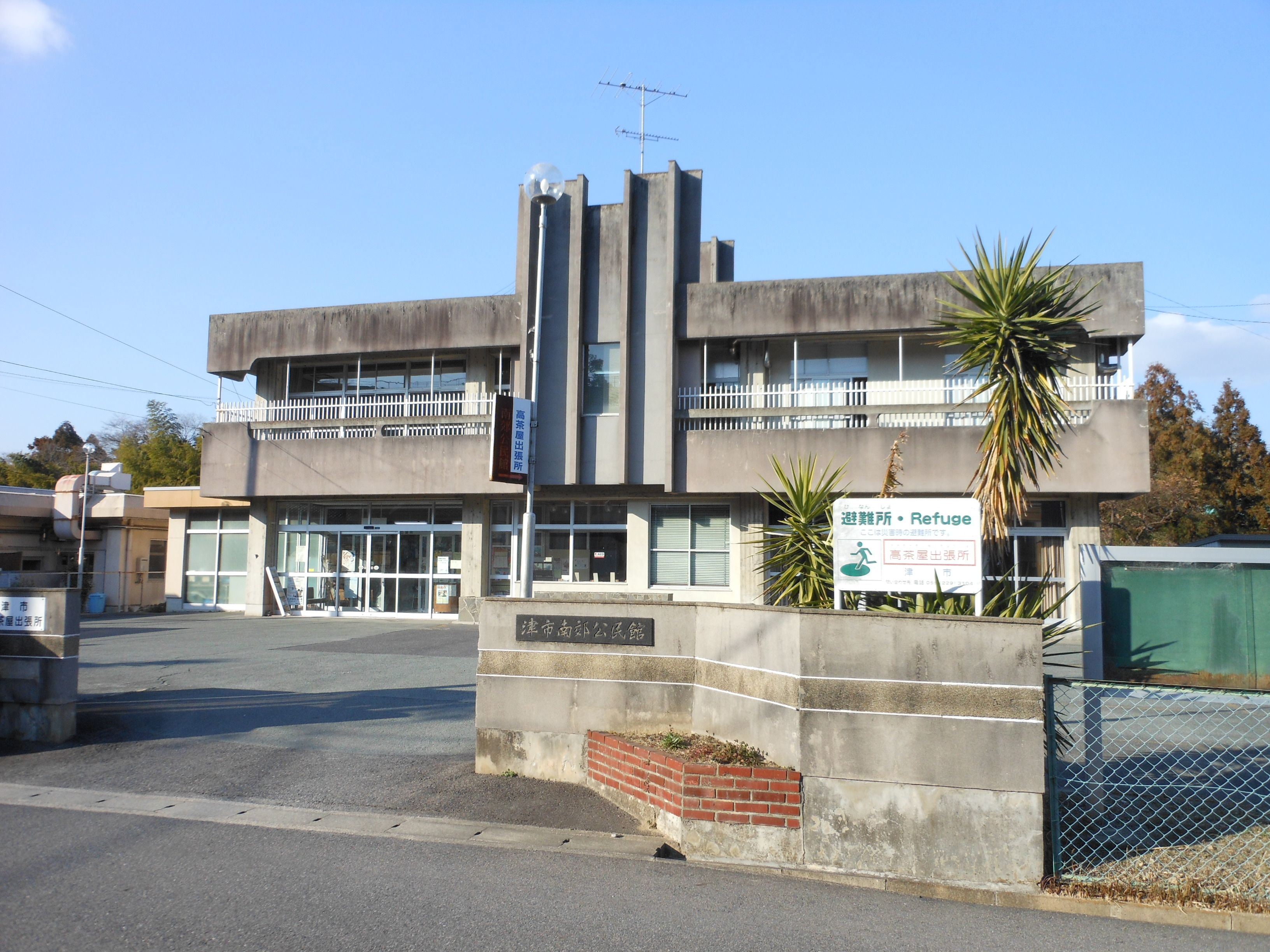 This is the Nanko Community Center in Tsu, Mie, Japan. It is also used for Tsu City Hall Takajaya Branch.